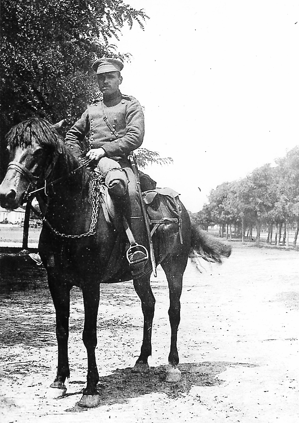 Self-made photo by my father prof. Ivan Batakliev.